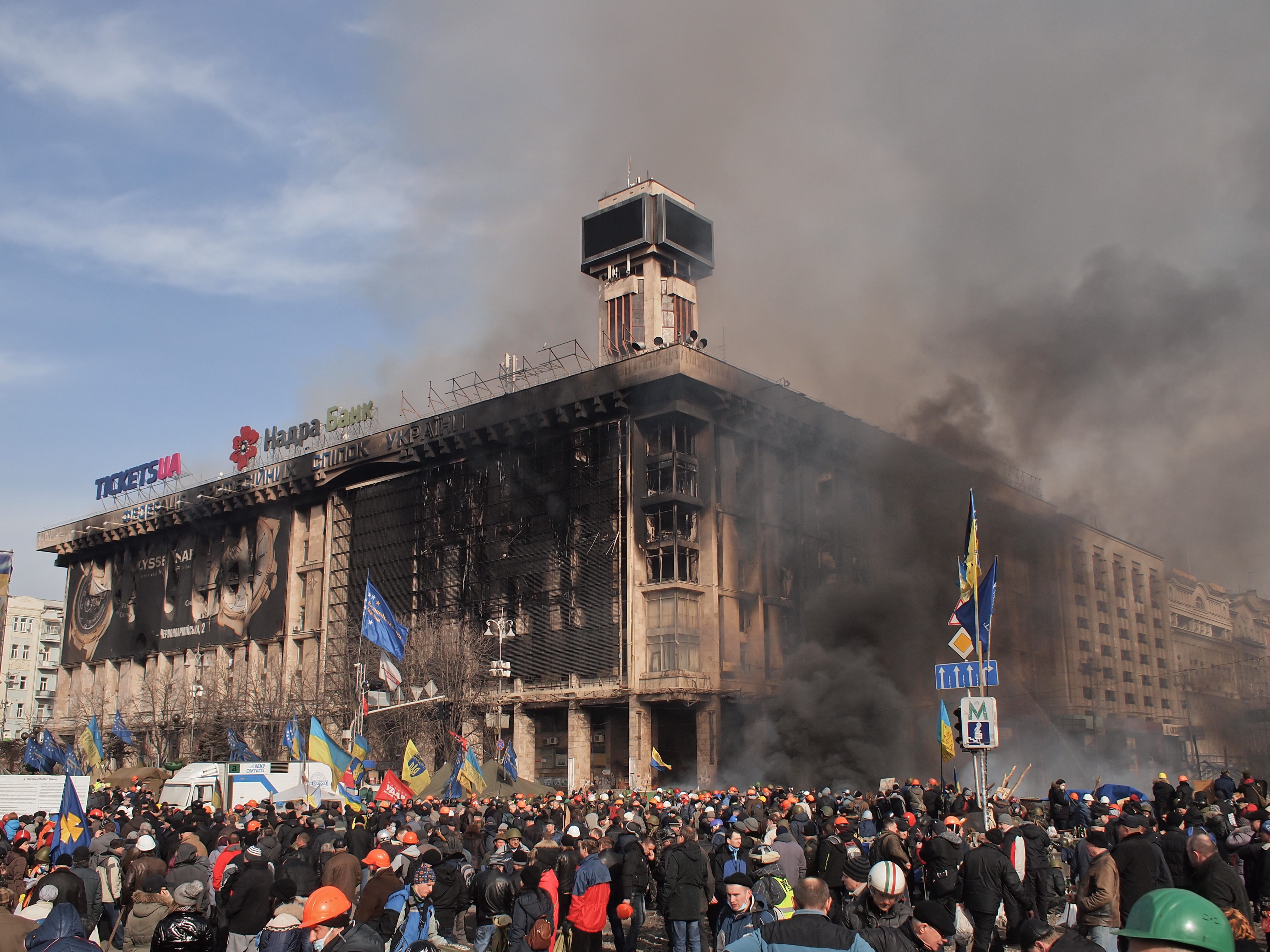 Euromaidan in Kiev, 19 February 2014. Labor Unions' House on fire. It was reportedly set afire by policemen[1] as it was a protesters' headquarters.